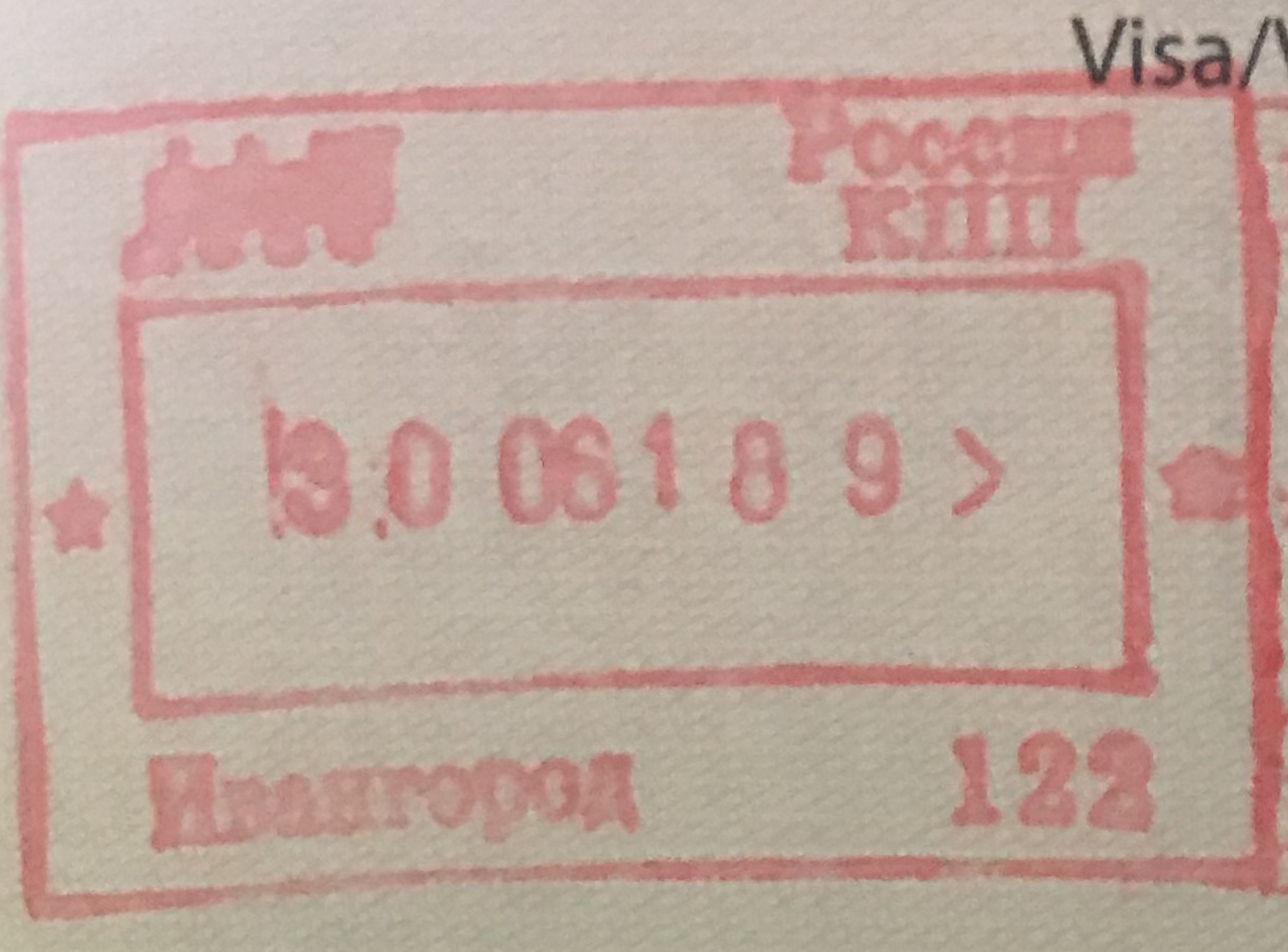 Russian exit stamp given on a Malaysian passport in Ivangorod, Russia, near the border to Estonia.